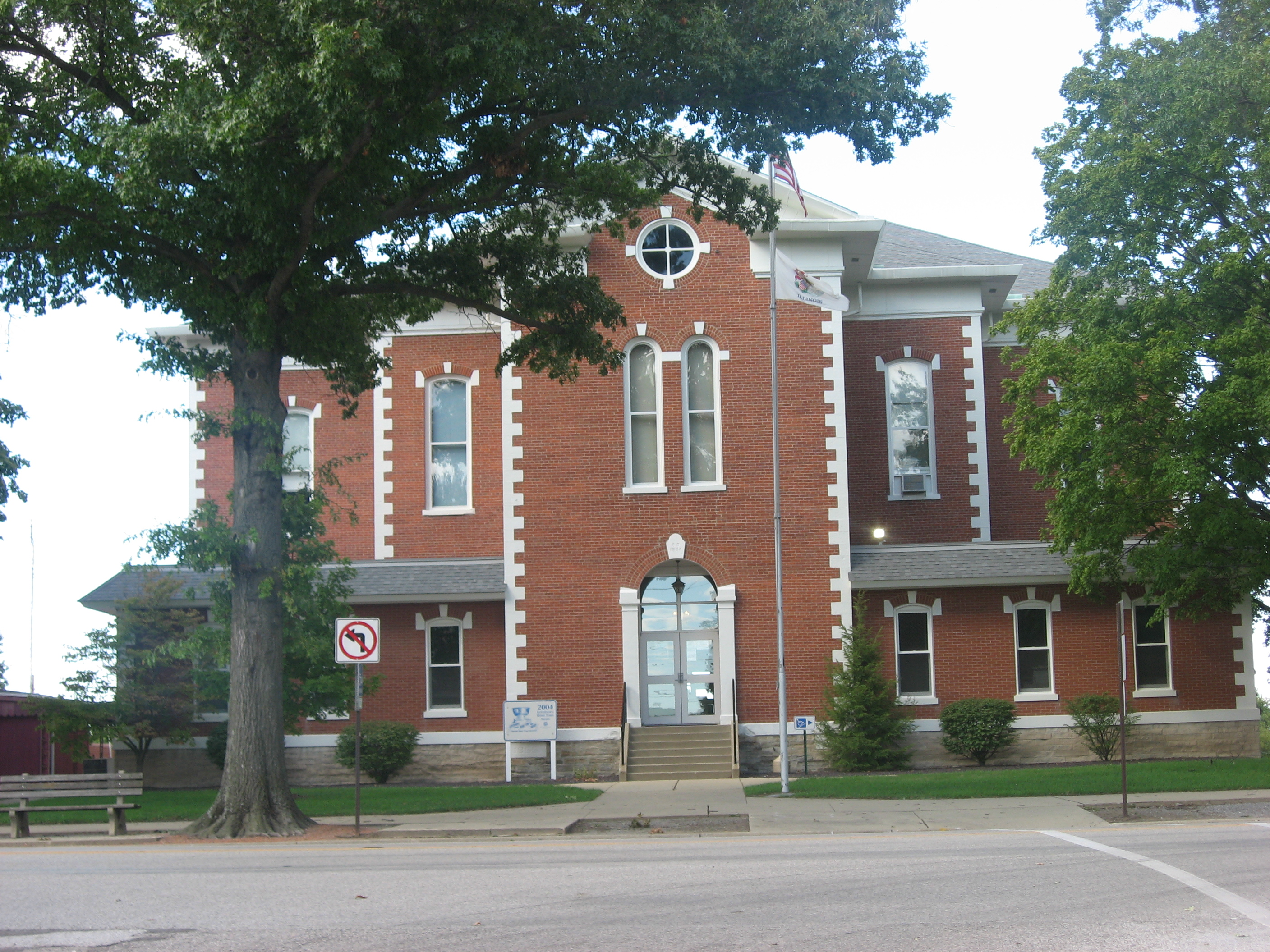 Southern front of the Washington County Courthouse, located along Illinois Route 15 on Courthouse Square in Nashville, Illinois, United States. It was built in 1884.